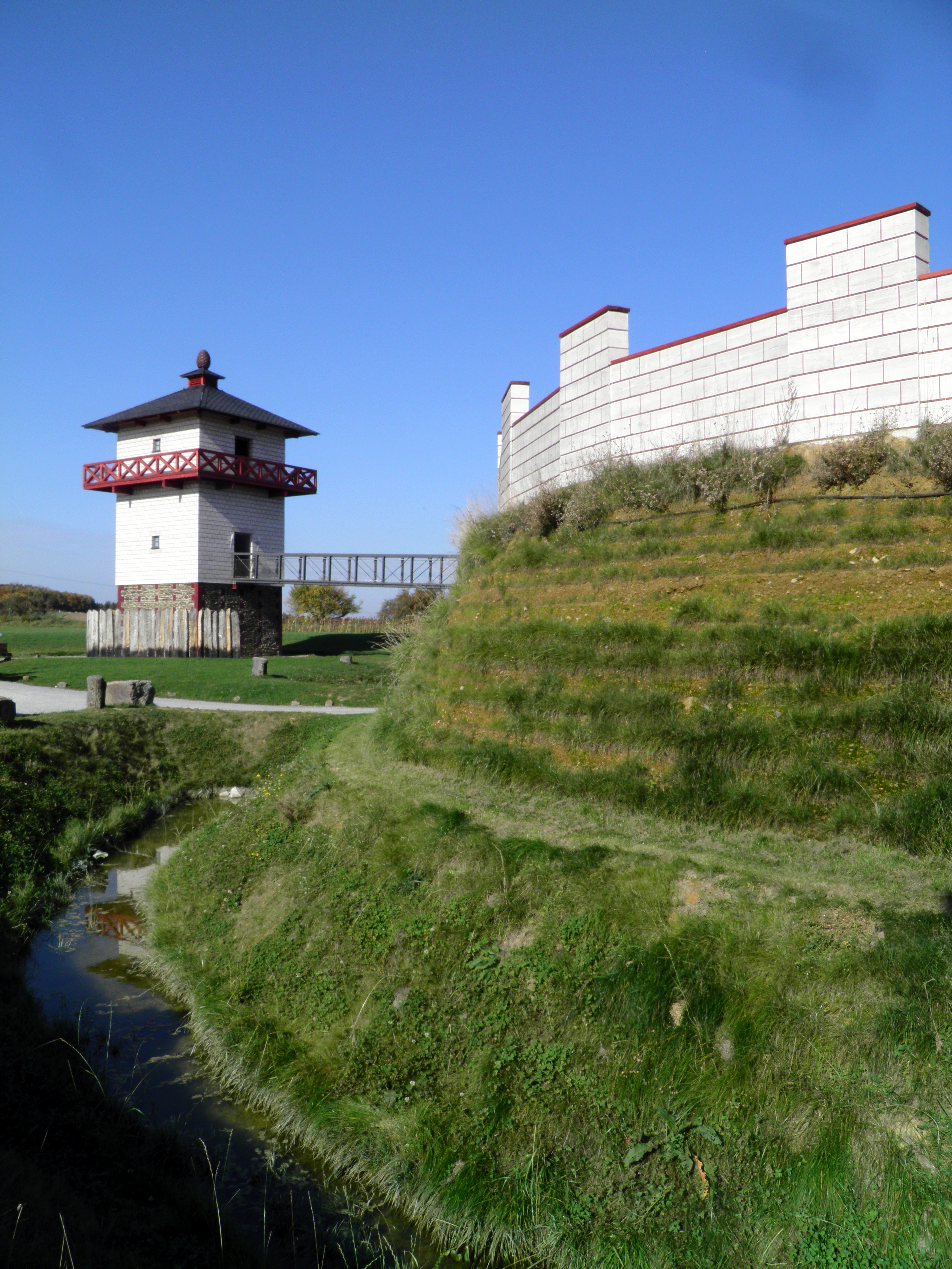 The reconstructed Roman fortlet in Pohl, Limeskastell Pohl, Limes Germanicus, Germany